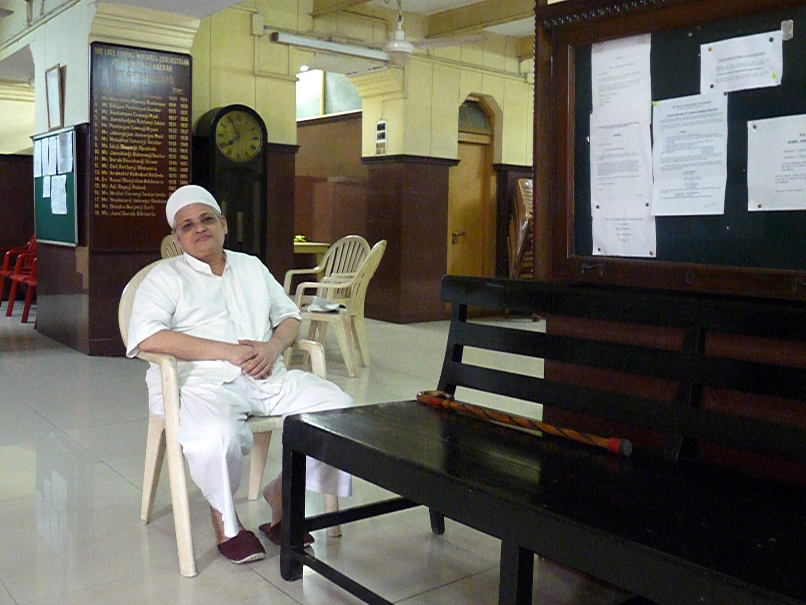 A Parsi Gentleman in Calcutta, 2010